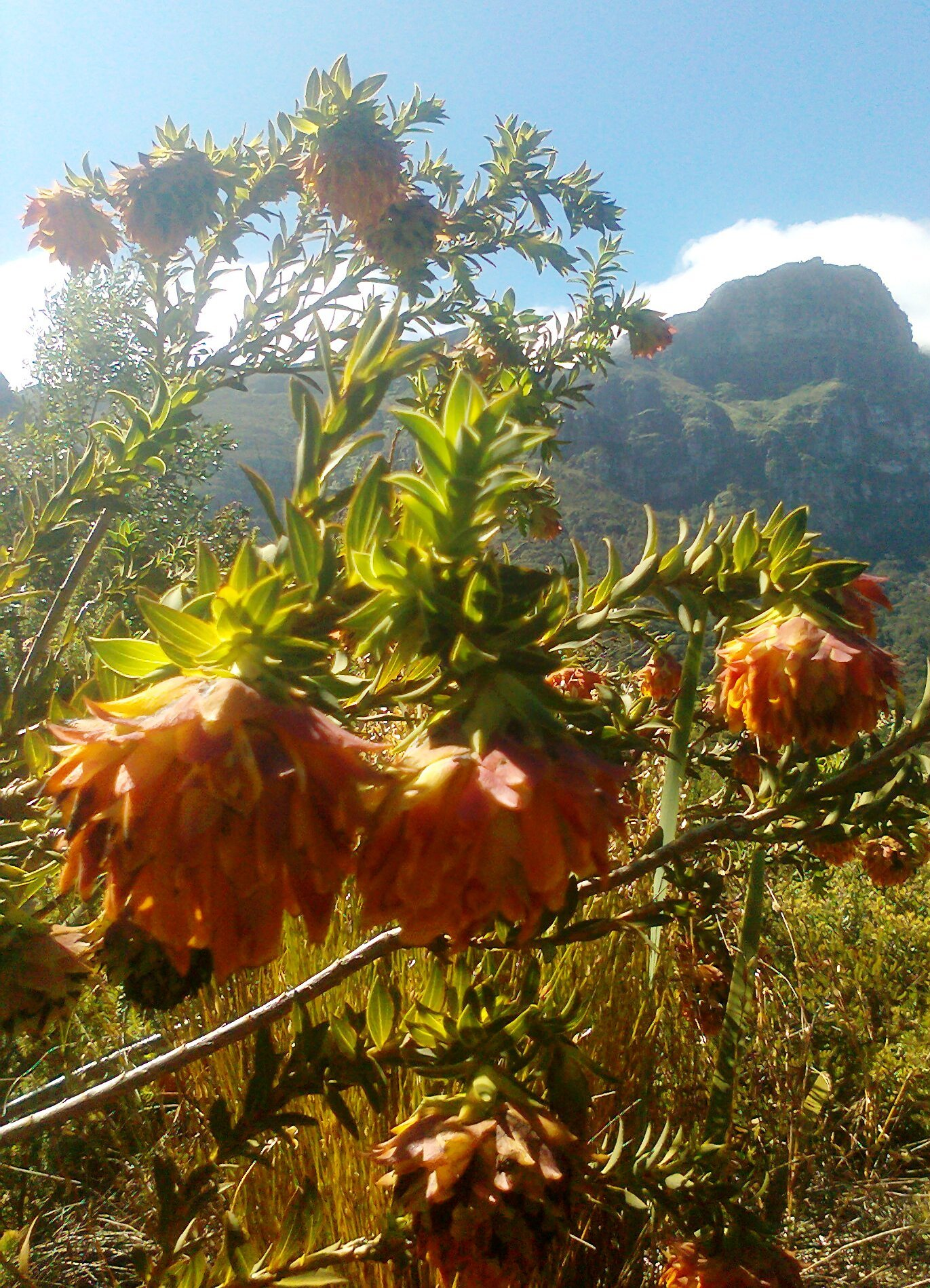 Liparia splendens - Orange NoddingHead - Cape Peninsula. South Africa.